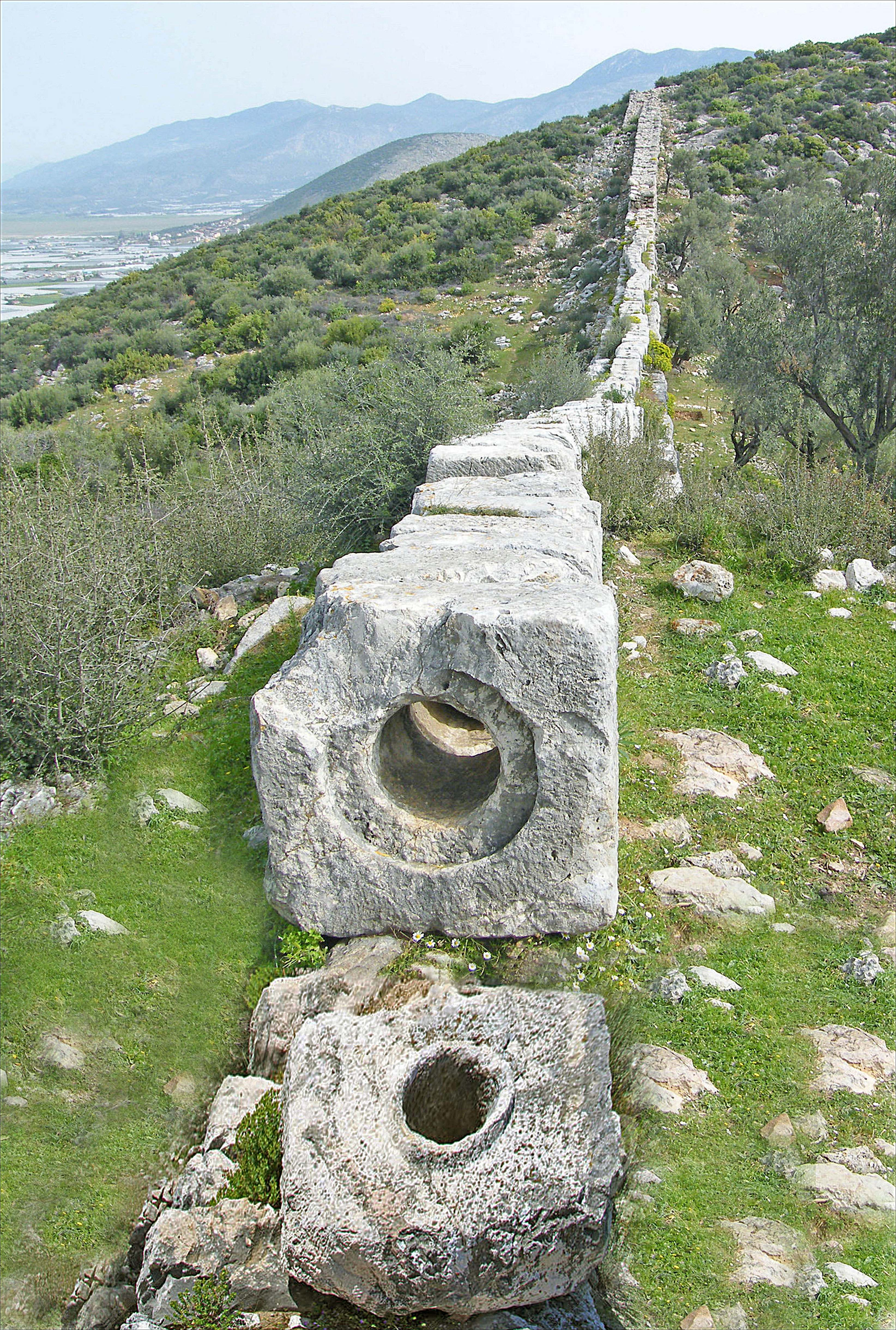 Stone pipe of the aqueduct siphon of Patara in Turkey.